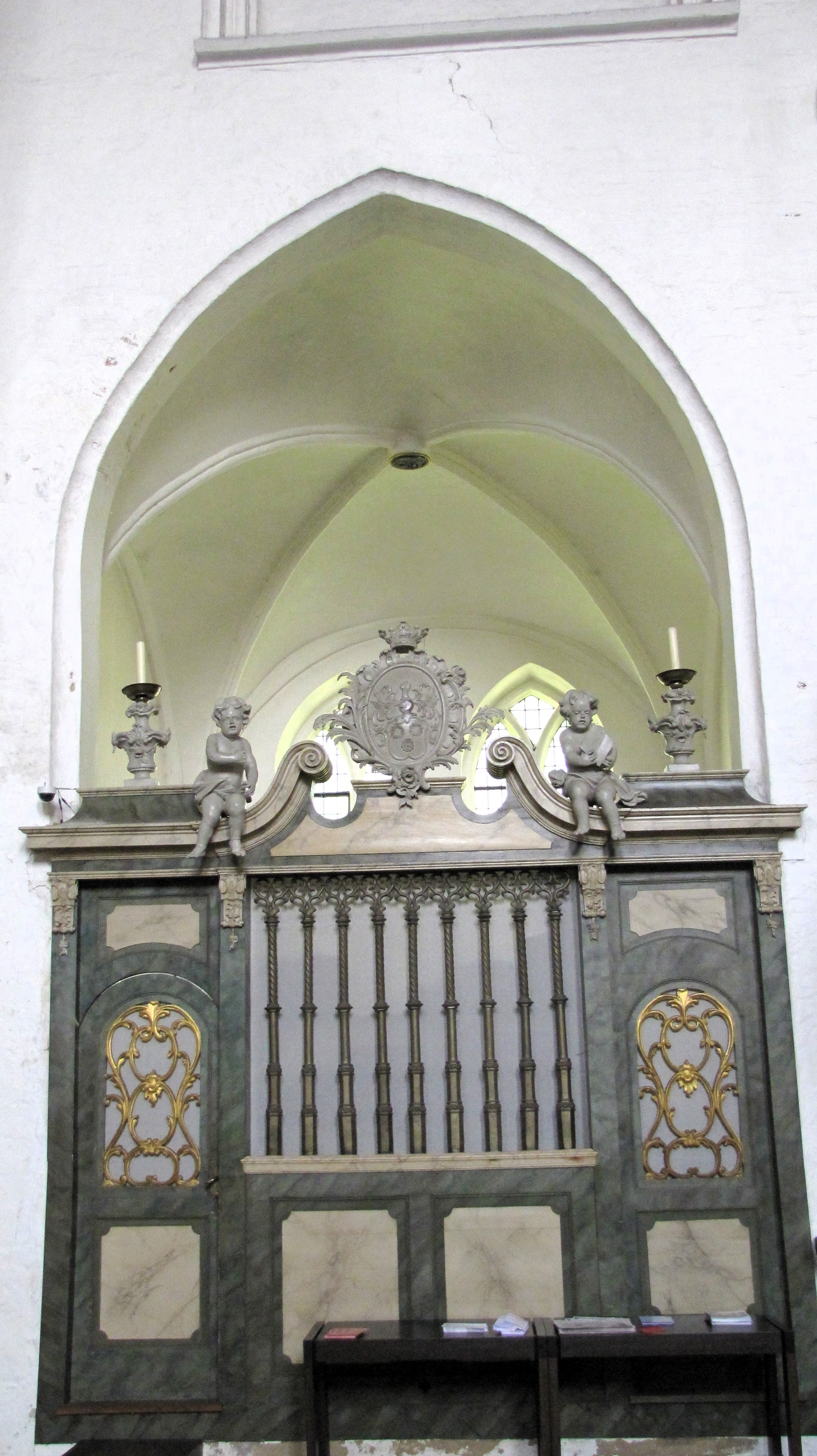 View of Greveraden chapel in Lübeck Cathedral